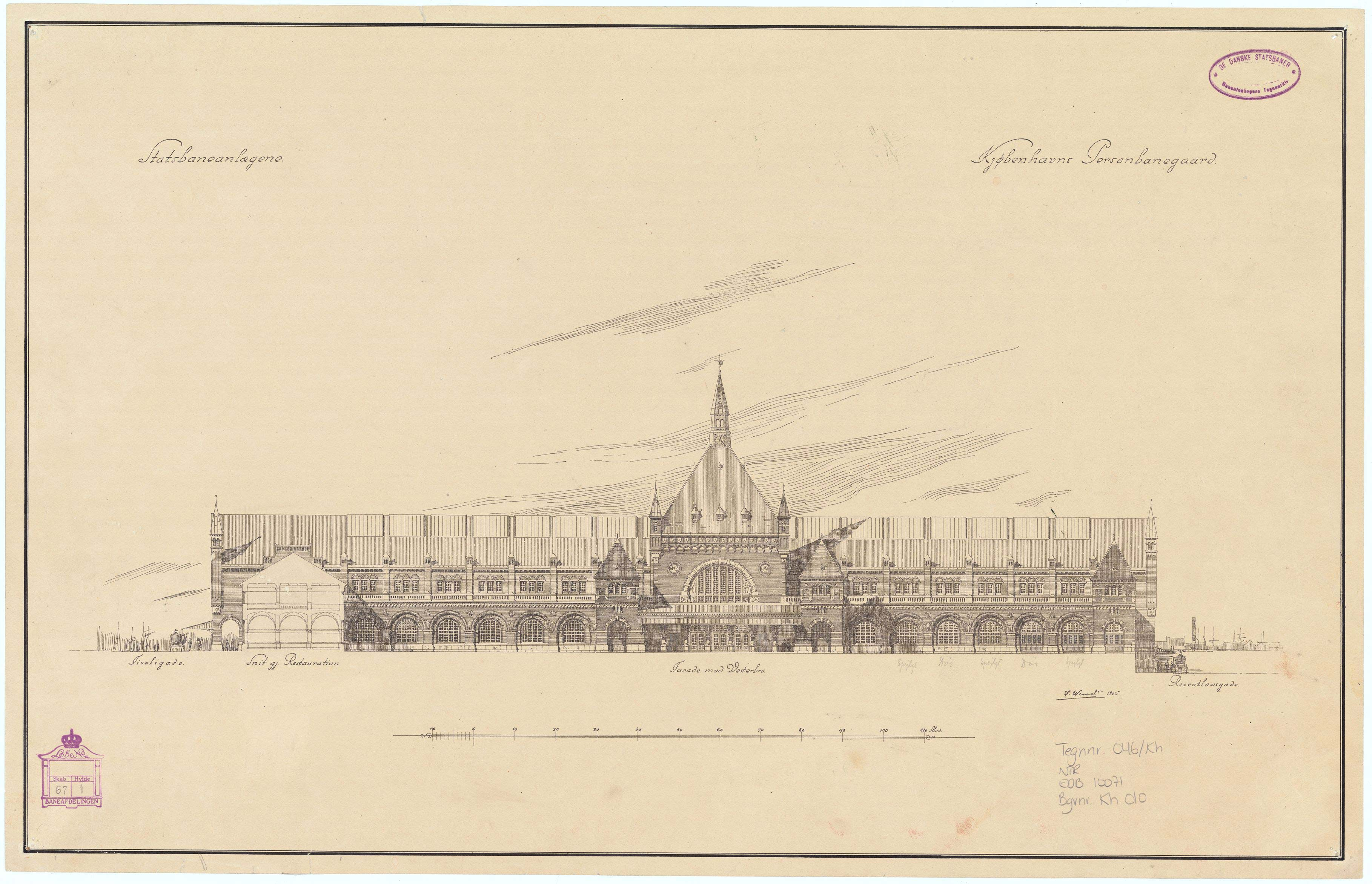 Elevation of the main facade of Copenhagen Central Station.